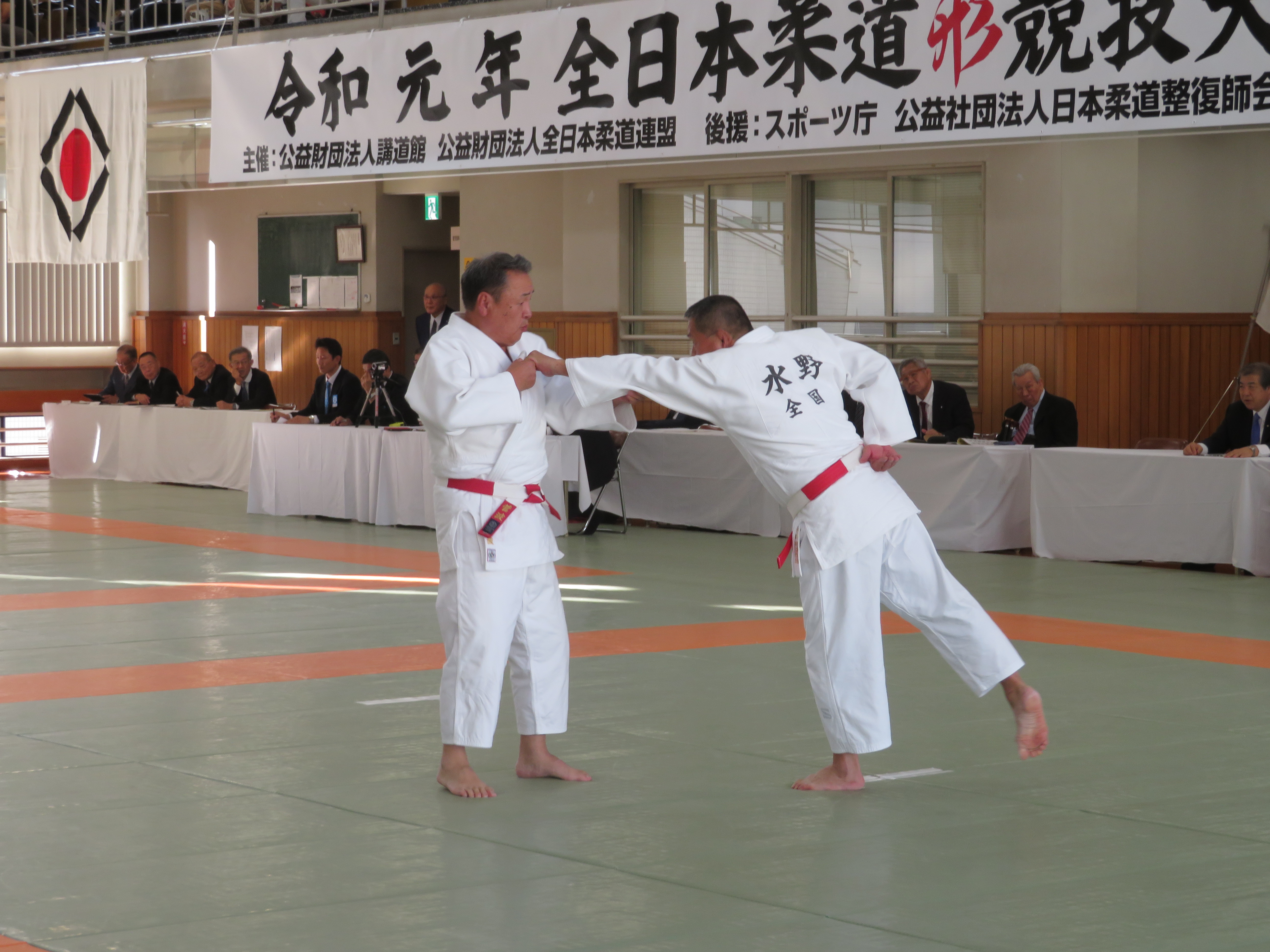 "Mizunagare" in Koshiki no Kata